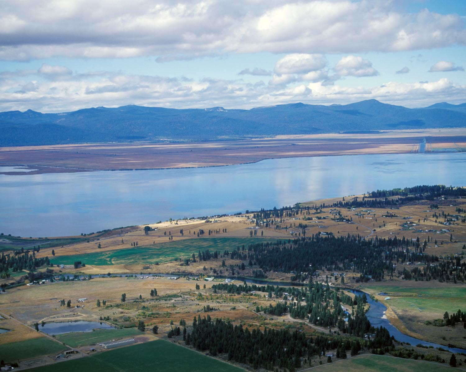 Aerial view of Upper Klamath Lake, near Klamath Falls, Oregon